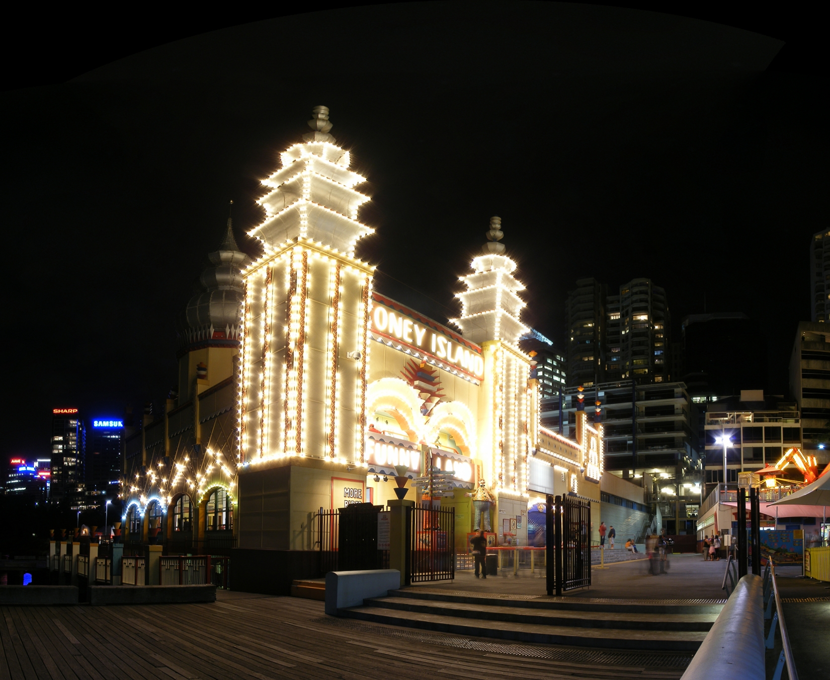 Luna Park Sydney